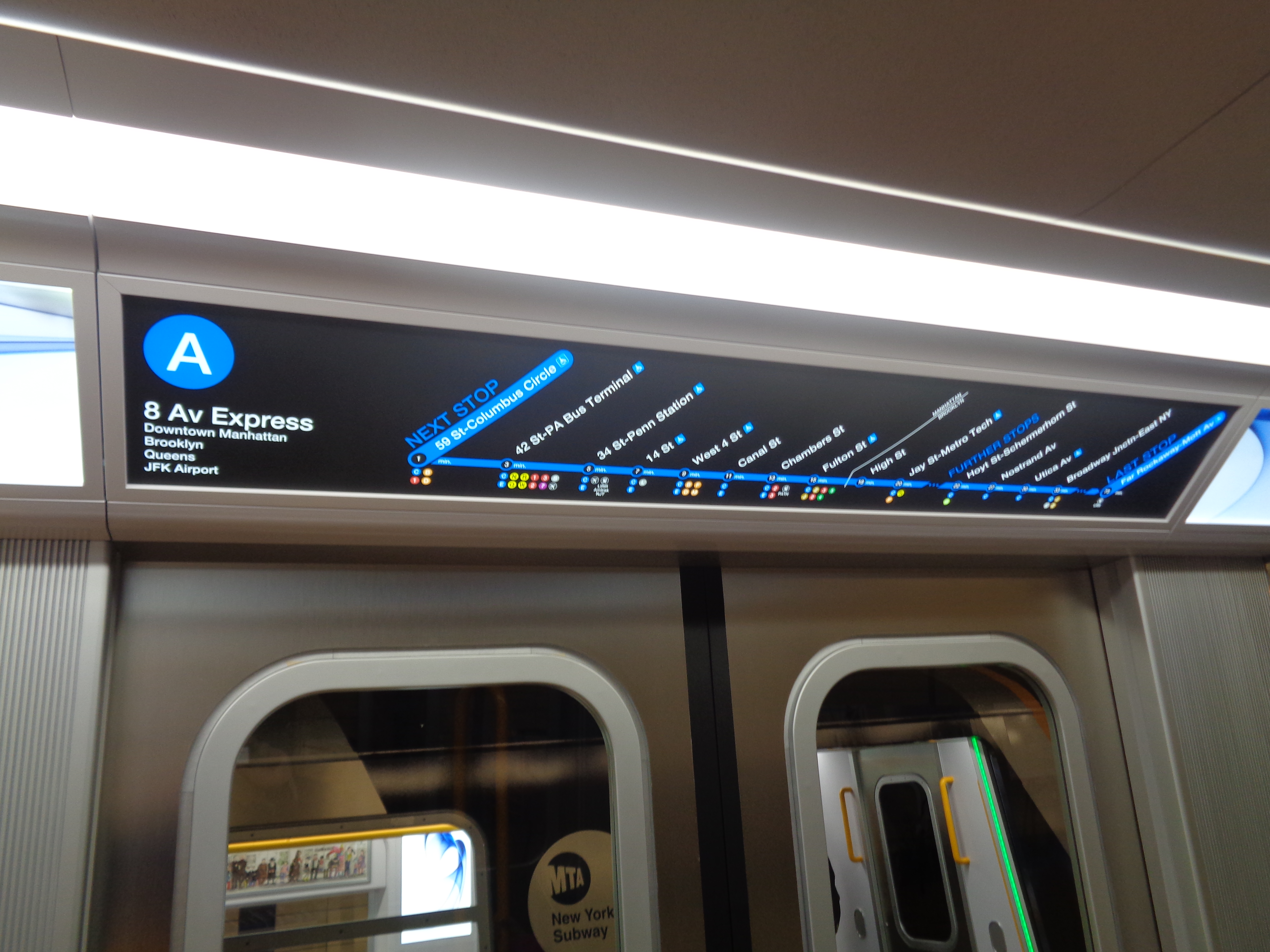 The R211 Open House in the lower mezzanine of the 34th Street – Hudson Yards subway station in Hudson Yards, Manhattan. Pictured is the new FIND display above the train doors. The screen displays a map similar to the strip maps on the R142s and R188s, but it is digital. Well, the real one will be...